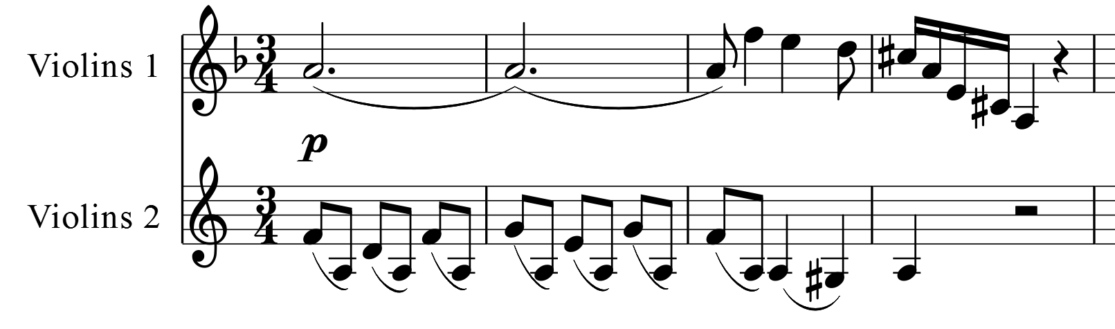 Joseph Haydn, Symphony No 34, first movement, bar 1-4